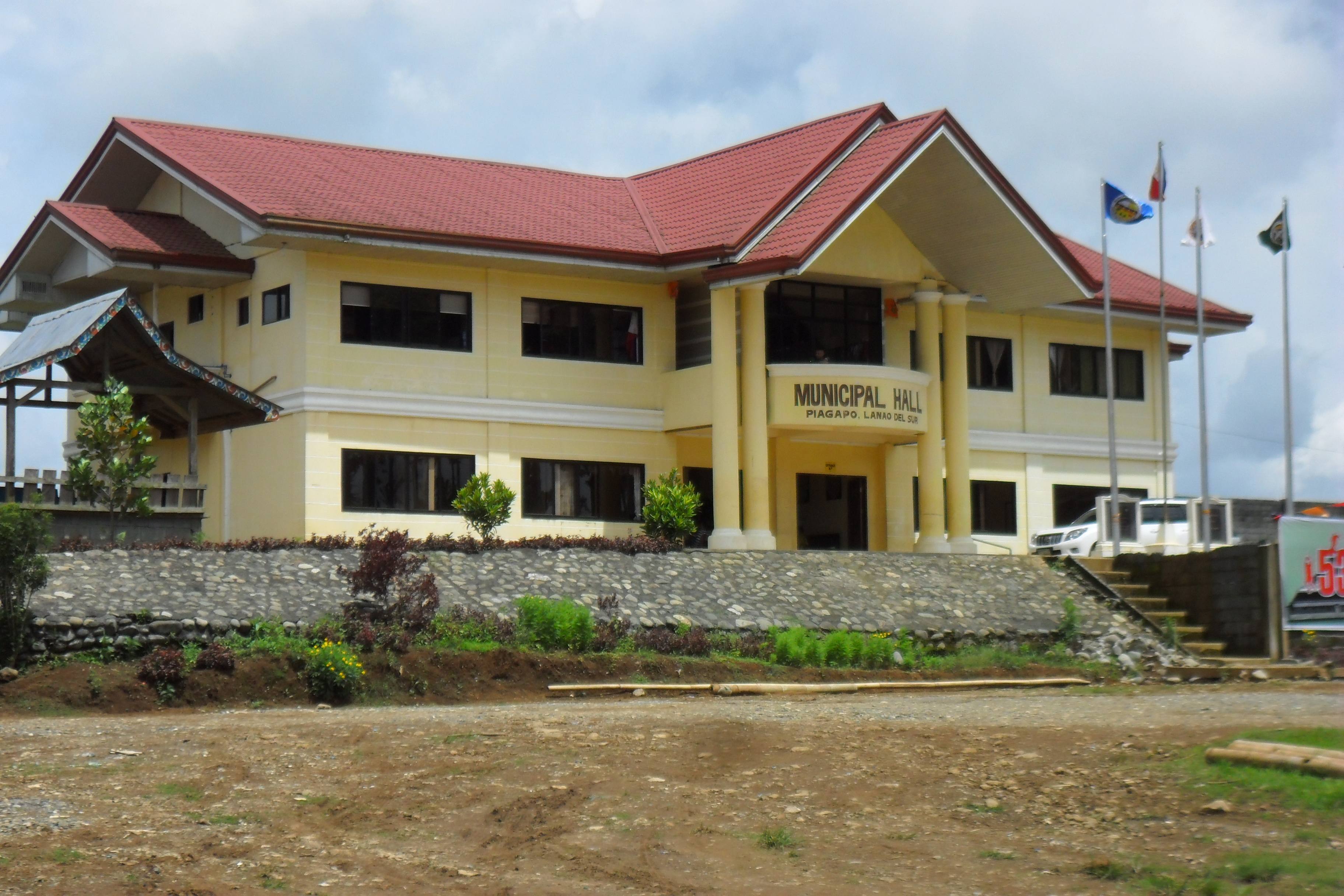 Piagapo Municipal Complex